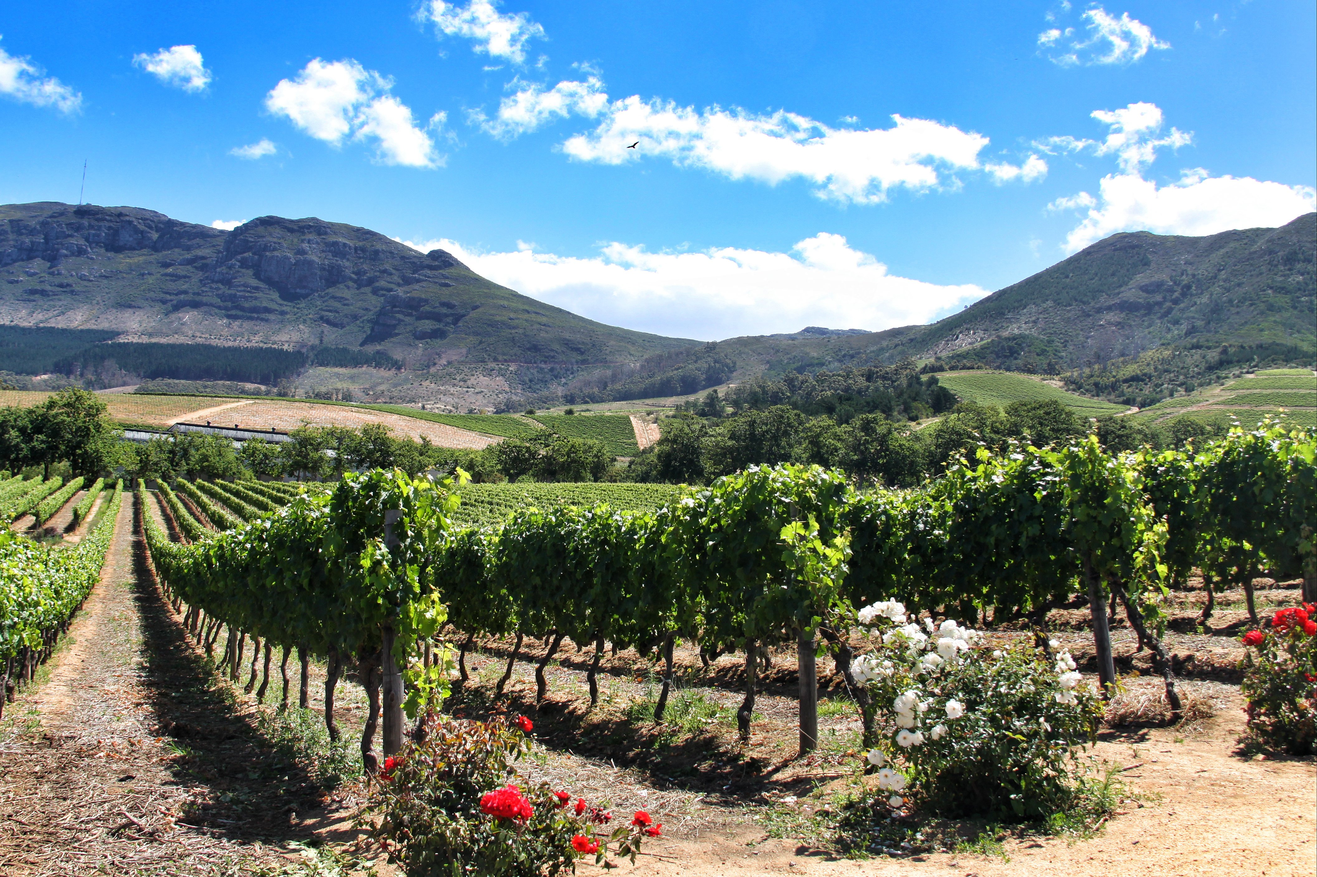 This media shows a South African Protected Site with SAHRA file reference 9/2/111/0015.